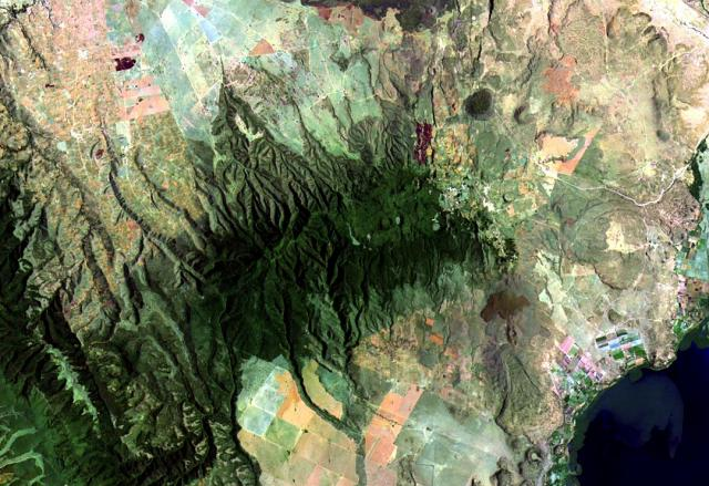 Vegetated Eburru volcano (center) is elongated perpendicular to the Gregory Rift NW of Lake Naivasha (lower right), Kenya. The E-W-trending main edifice is eroded, but young craters cut the eastern part of the summit ridge, and partly vegetated, probably Holocene rhyolitic domes occur on the east flank. Extensive fumarolic activity occurs at cinder cones and craters constructed along faults cutting the massif. Lava flows of the Elmenteita Badlands are visible at the top-center portion of this Landsat image.